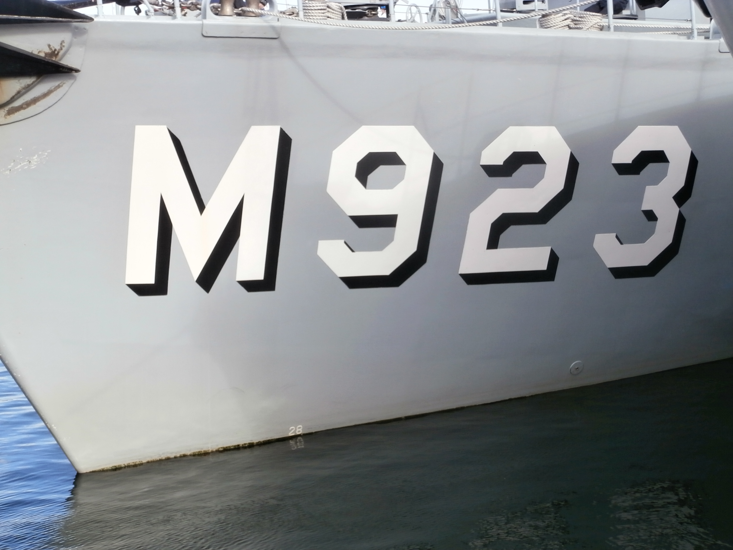 M923 Narcis pennant number, Lennusadam Tallinn 5 October 2013